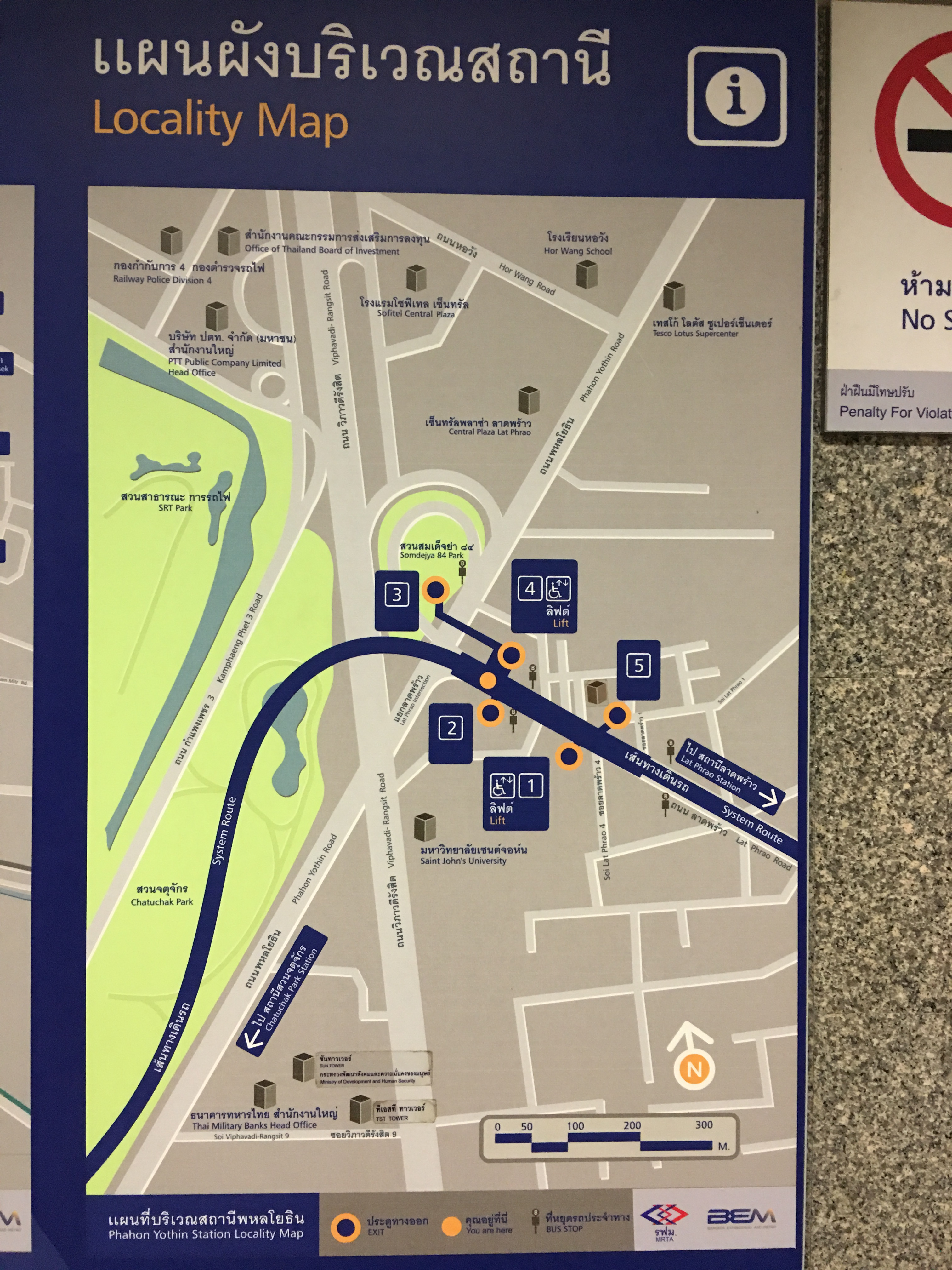 The locality map of Phahon Yothin MRT Station